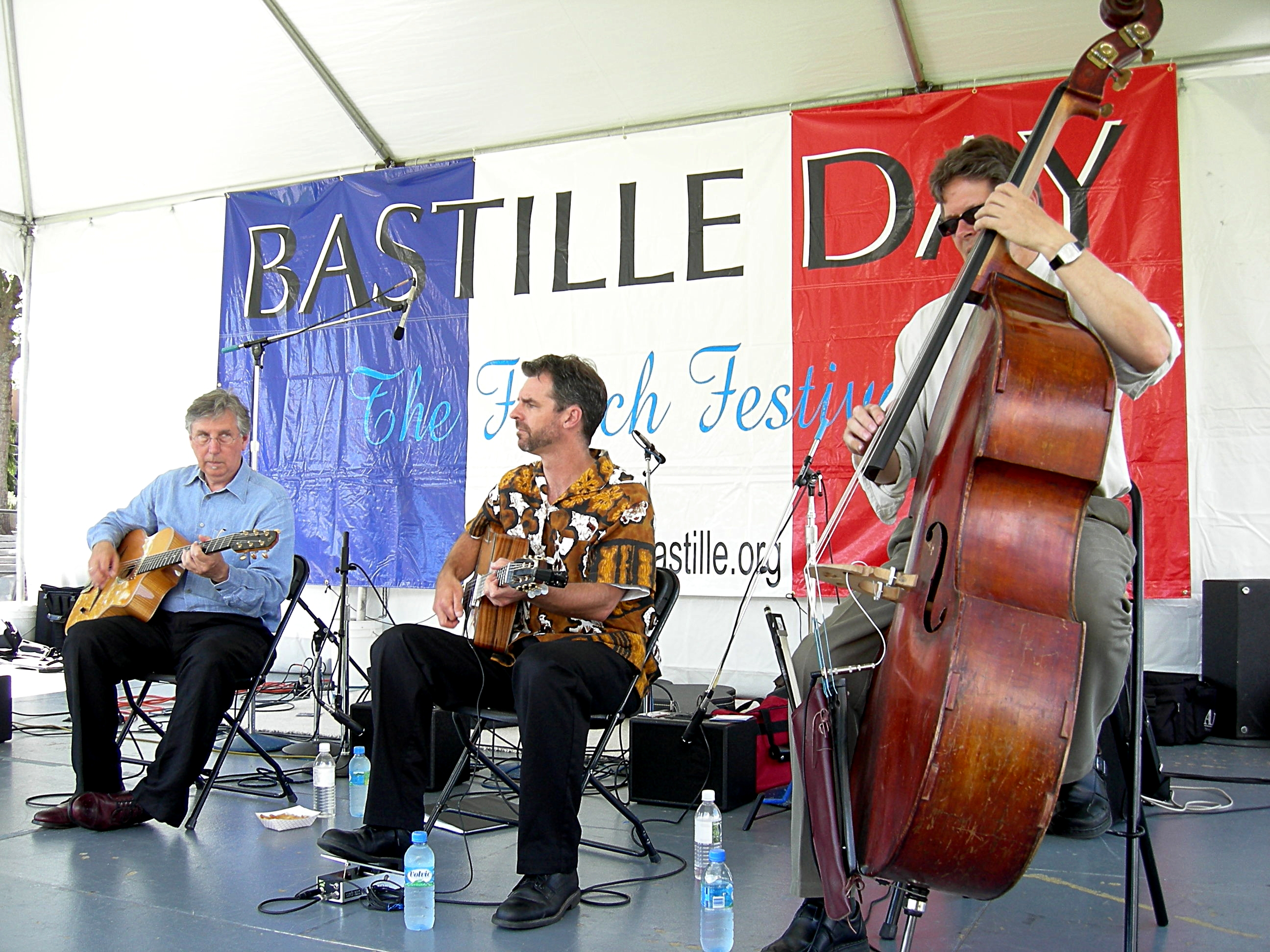 "Gypsy jazz" band Pearl Django perform at the Bastille Day celebration that is part of the Festál series of festivals at Seattle Center, Seattle, Washington.